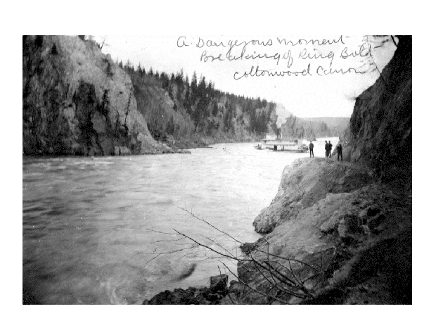 Sternwheeler Charlotte lining through rapids in Cottonwood Canyon on the upper Fraser River.